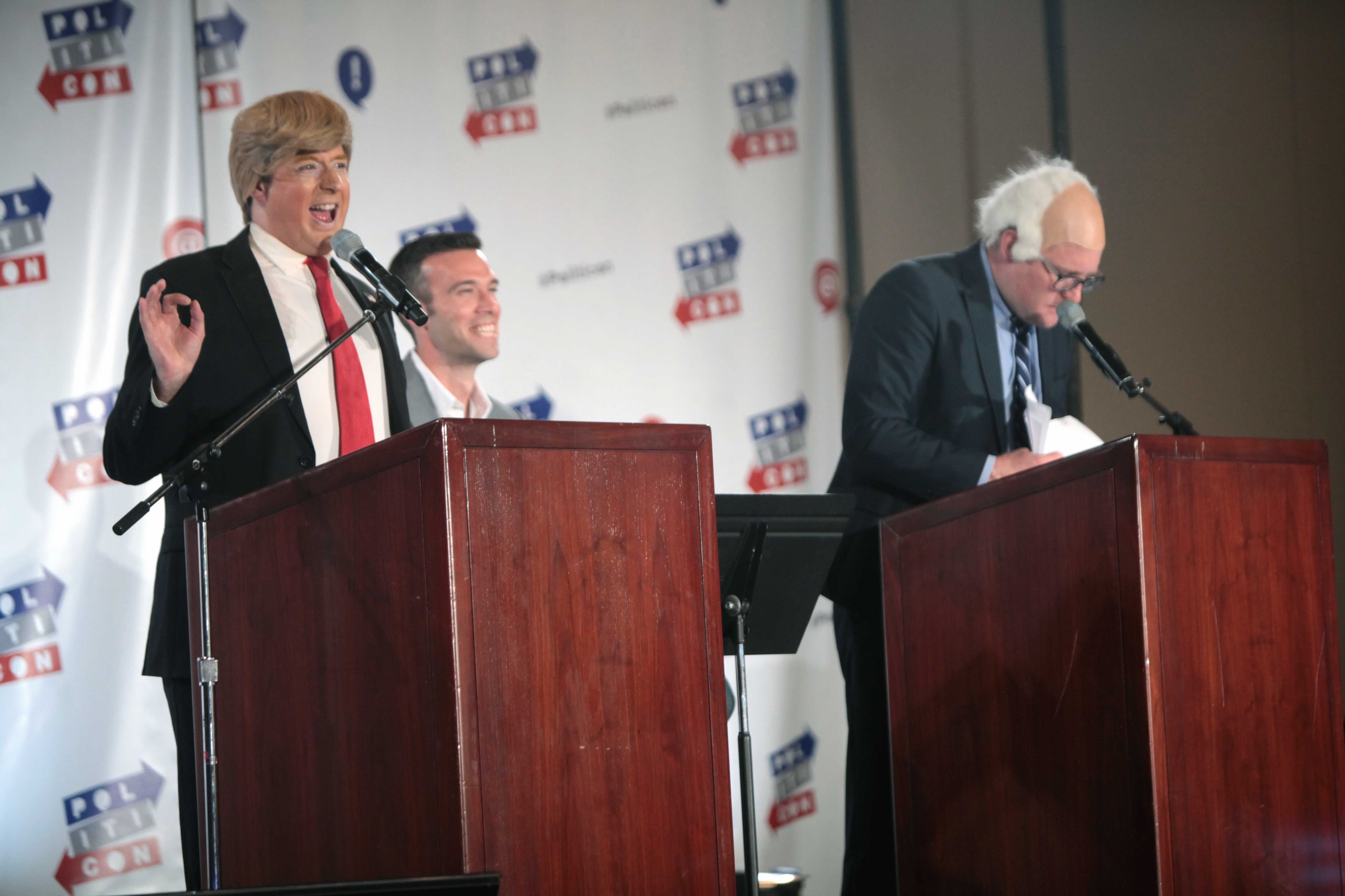 Anthony Atamanuik as Donald Trump, Jon Favreau and James Adomian as Bernie Sanders speaking at the 2016 Politicon at the Pasadena Convention Center in Pasadena, California.